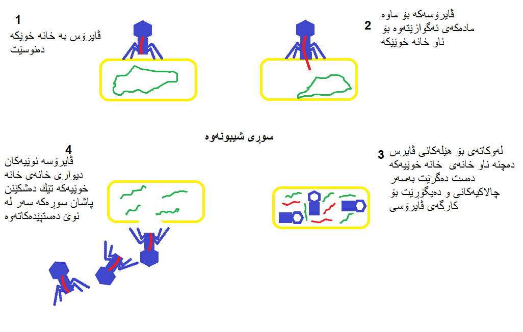 i'll put this image to it's about lytic cycle virus